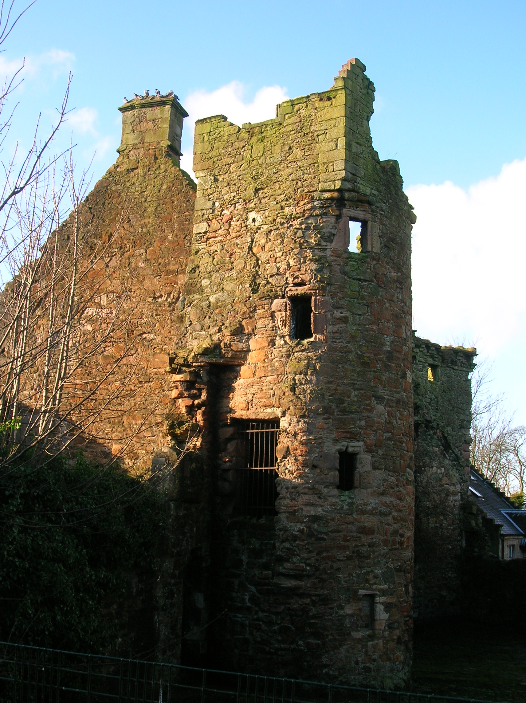 Seagate Castle, Irvine, from the North. North Ayrshire, Scotland